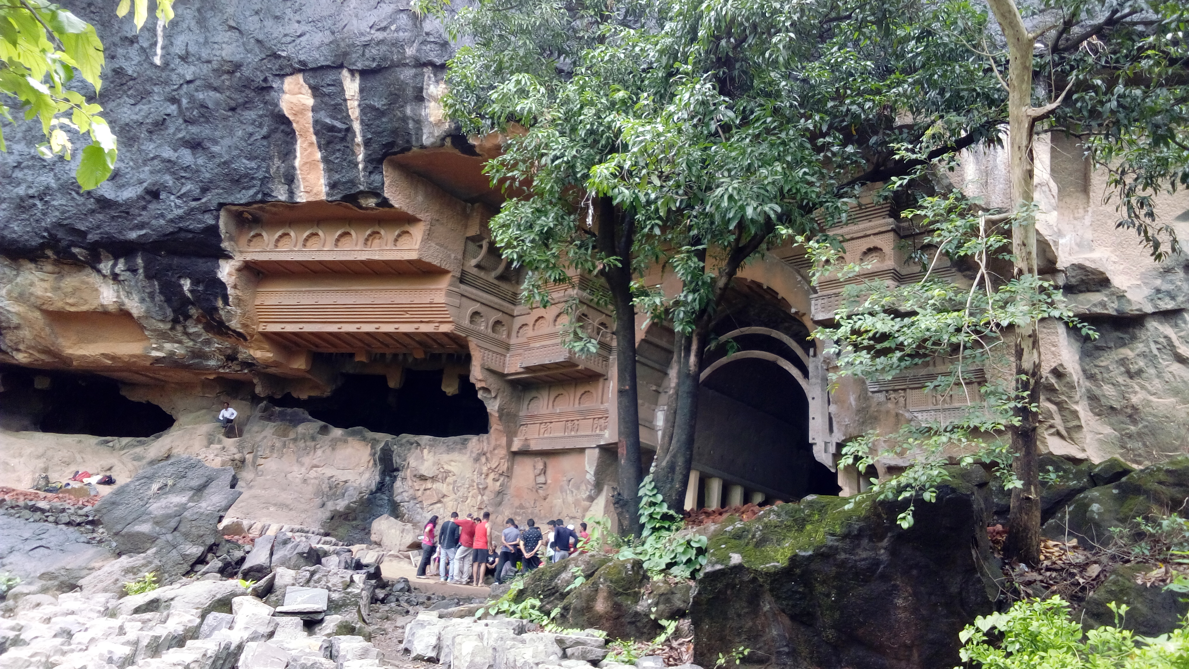 Kondana is a small village in Karjat, at around 65 Kms from Mumbai. The village is pristine during monsoon. Greenery cuddled with mountains and water bodies is like a breath of fresh air.